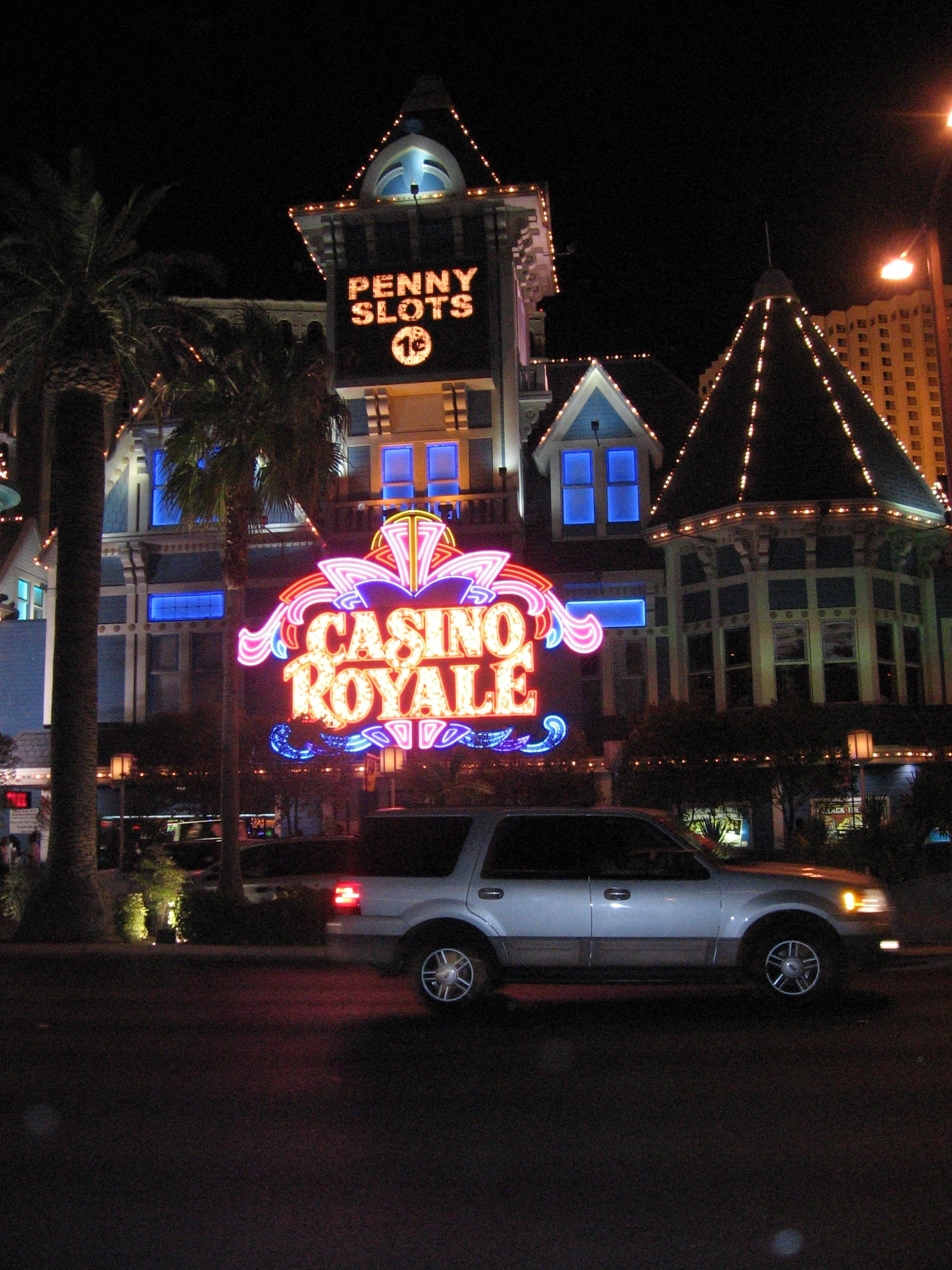 Casino Royale Hotel & Casino.